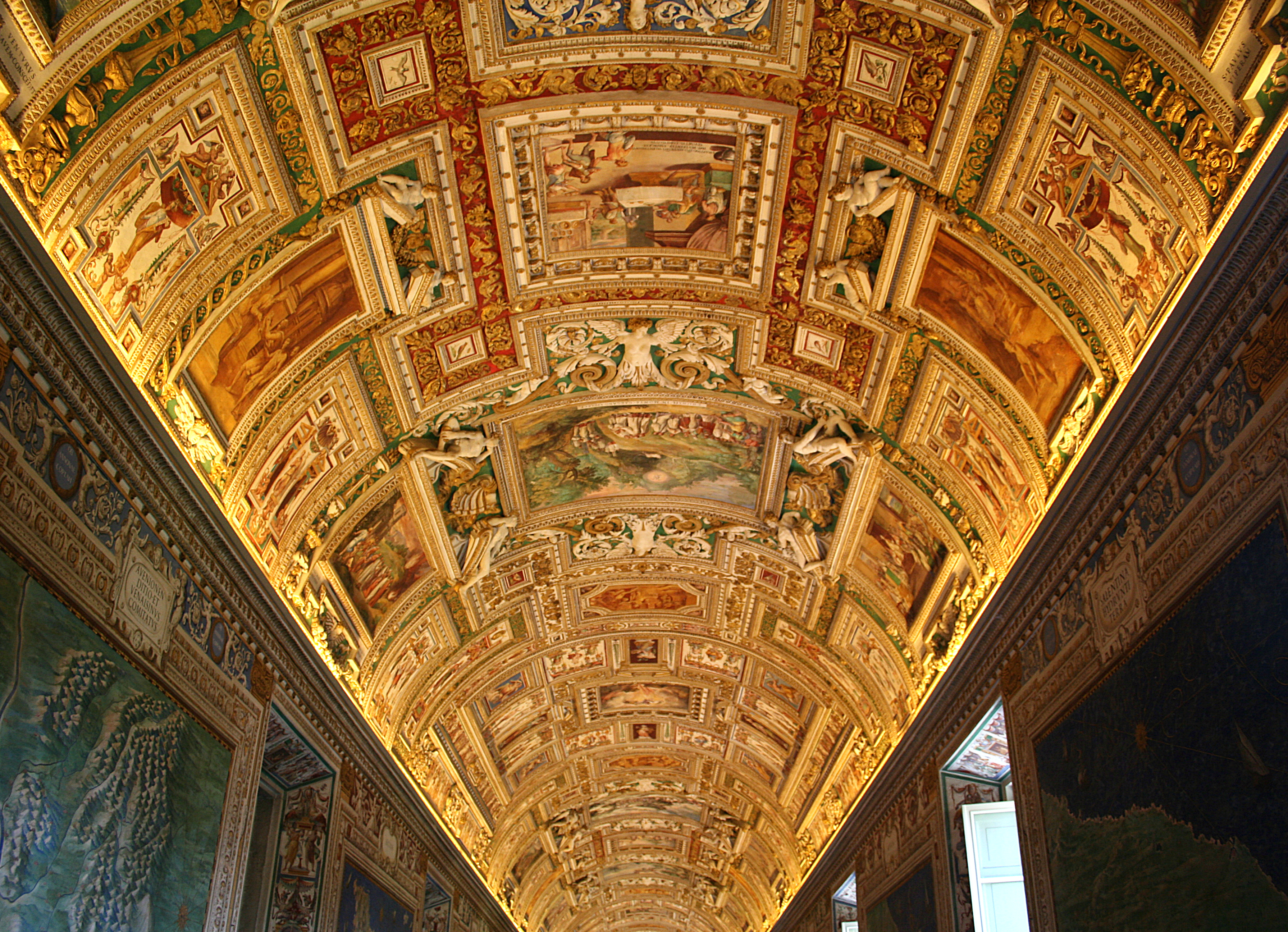 Gallery of Maps - Vatican Museums.